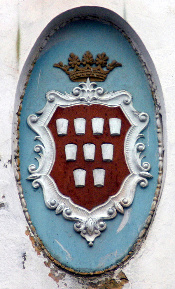 Coat of Arms, Drohobych, Ukraine. author: Elke Wetzig elya date: November 2005